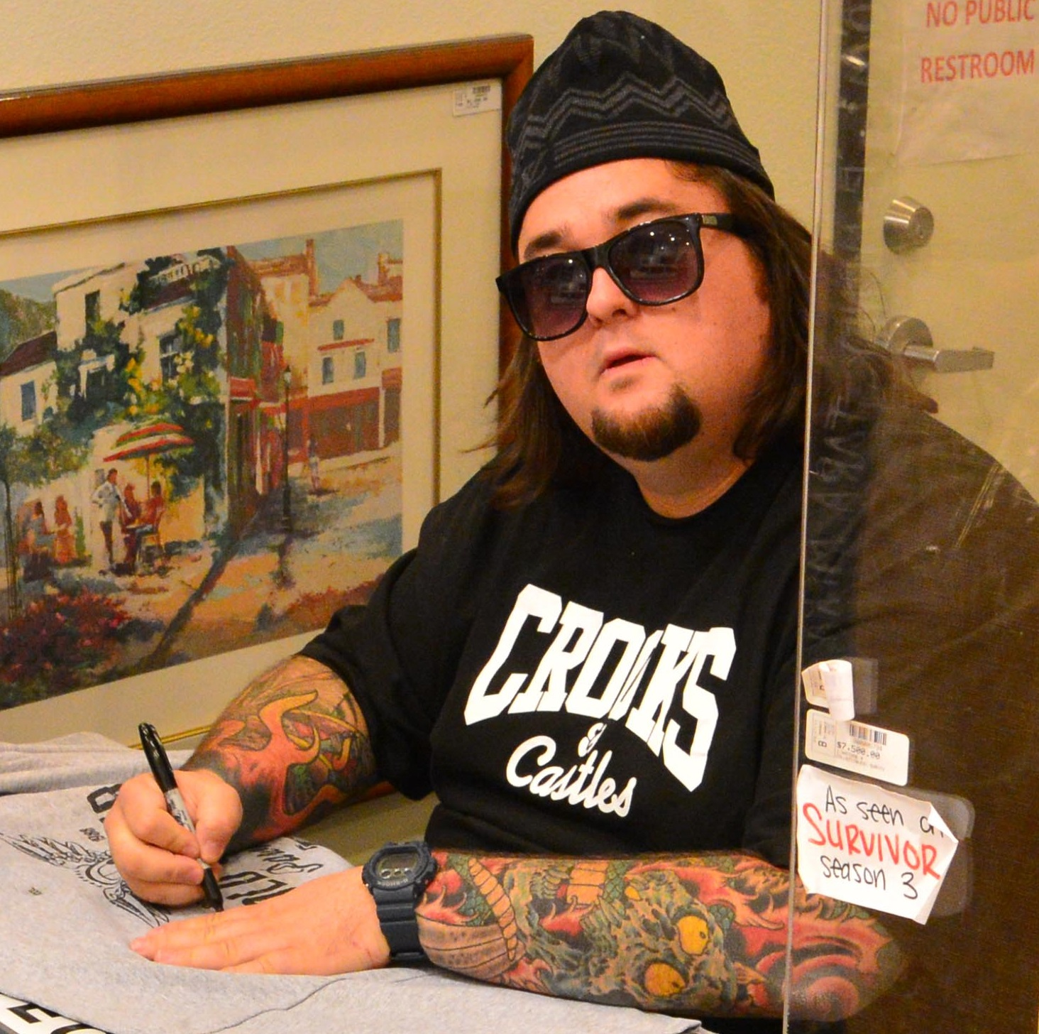 Austin Russell in October 2014